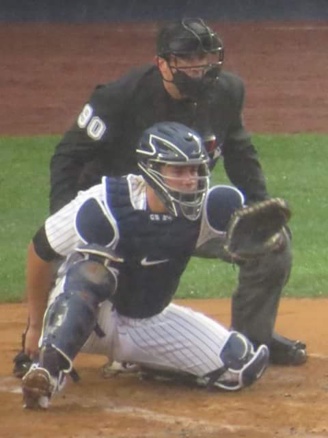 Gary Sanchez Catching For the New York Yankees